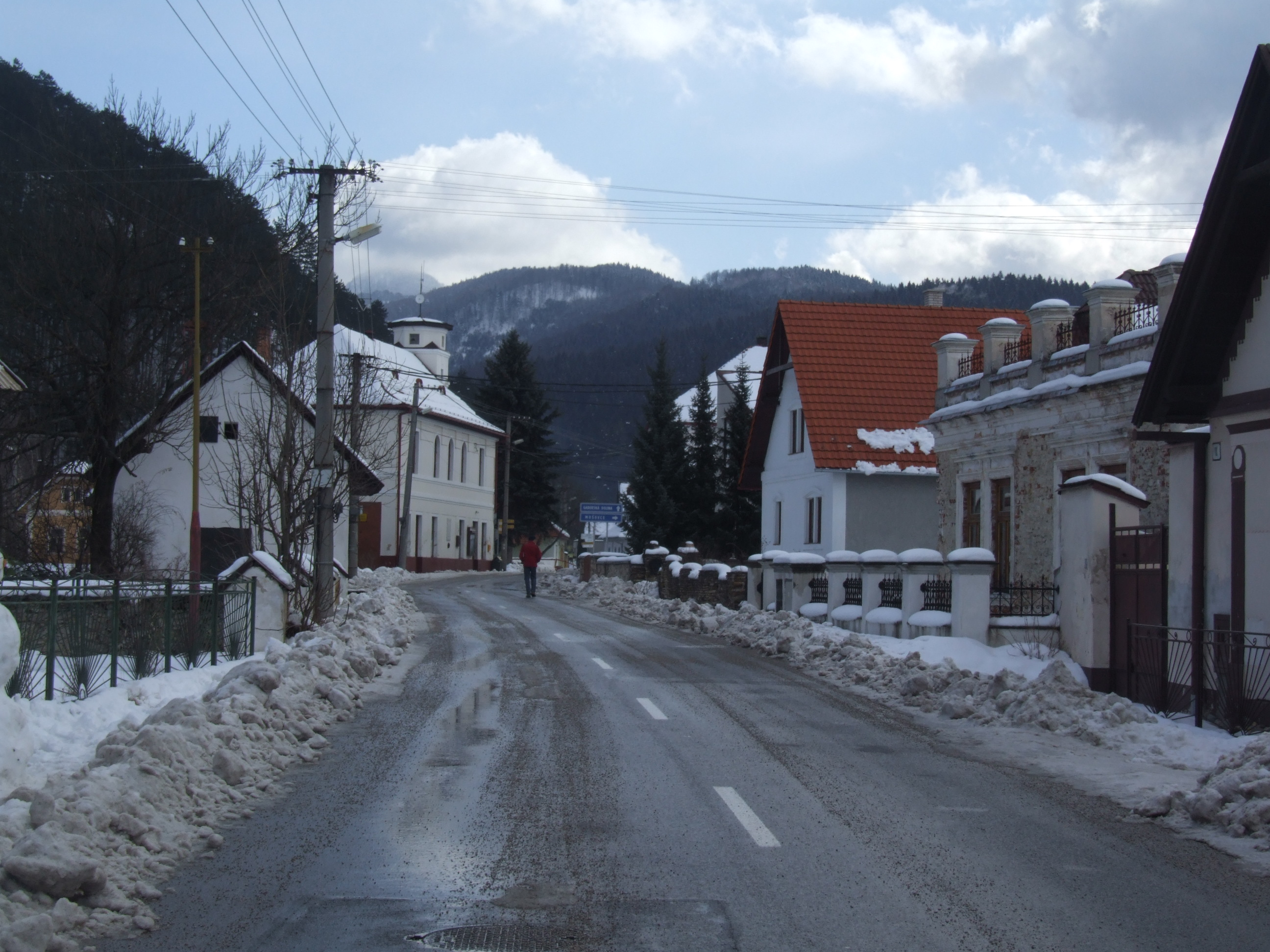 Blatnica - center of village